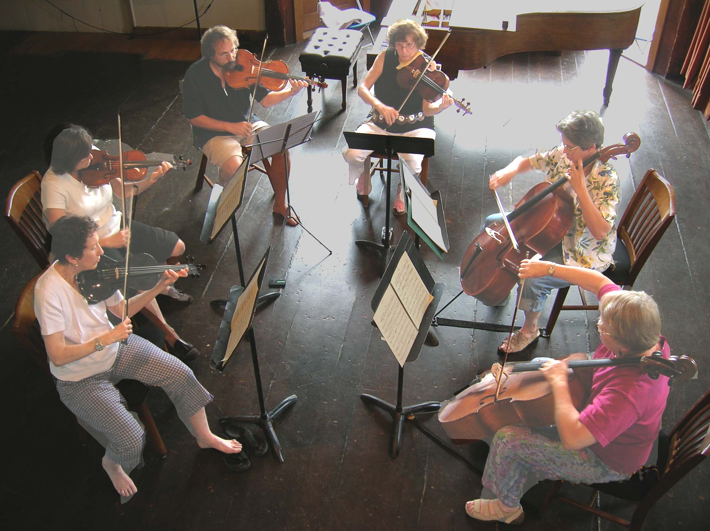 Amateur musicians play at the Raphael Trio Music Workshop in Vermont.